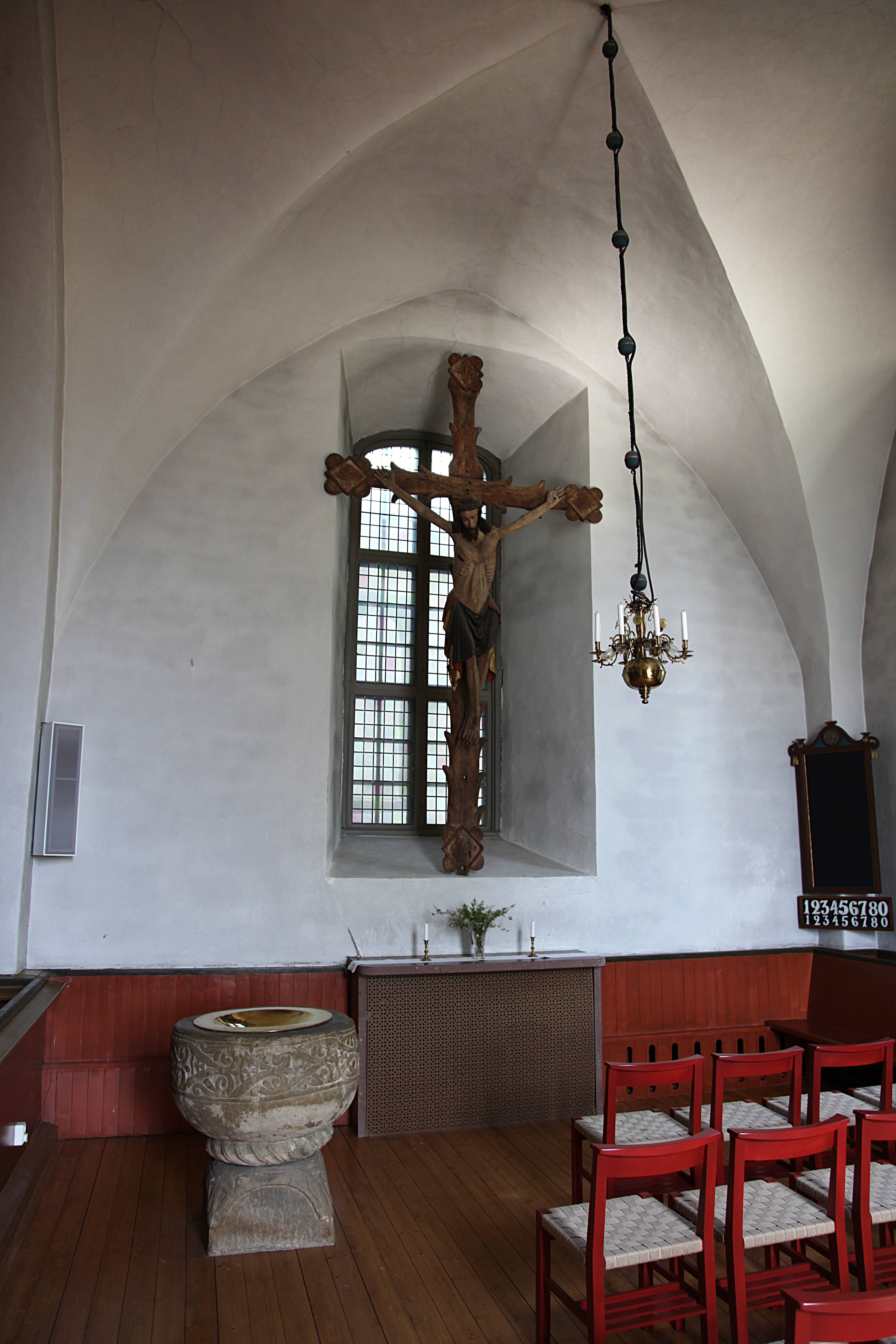 Interior in Forshems kyrka. A church near Lidköping